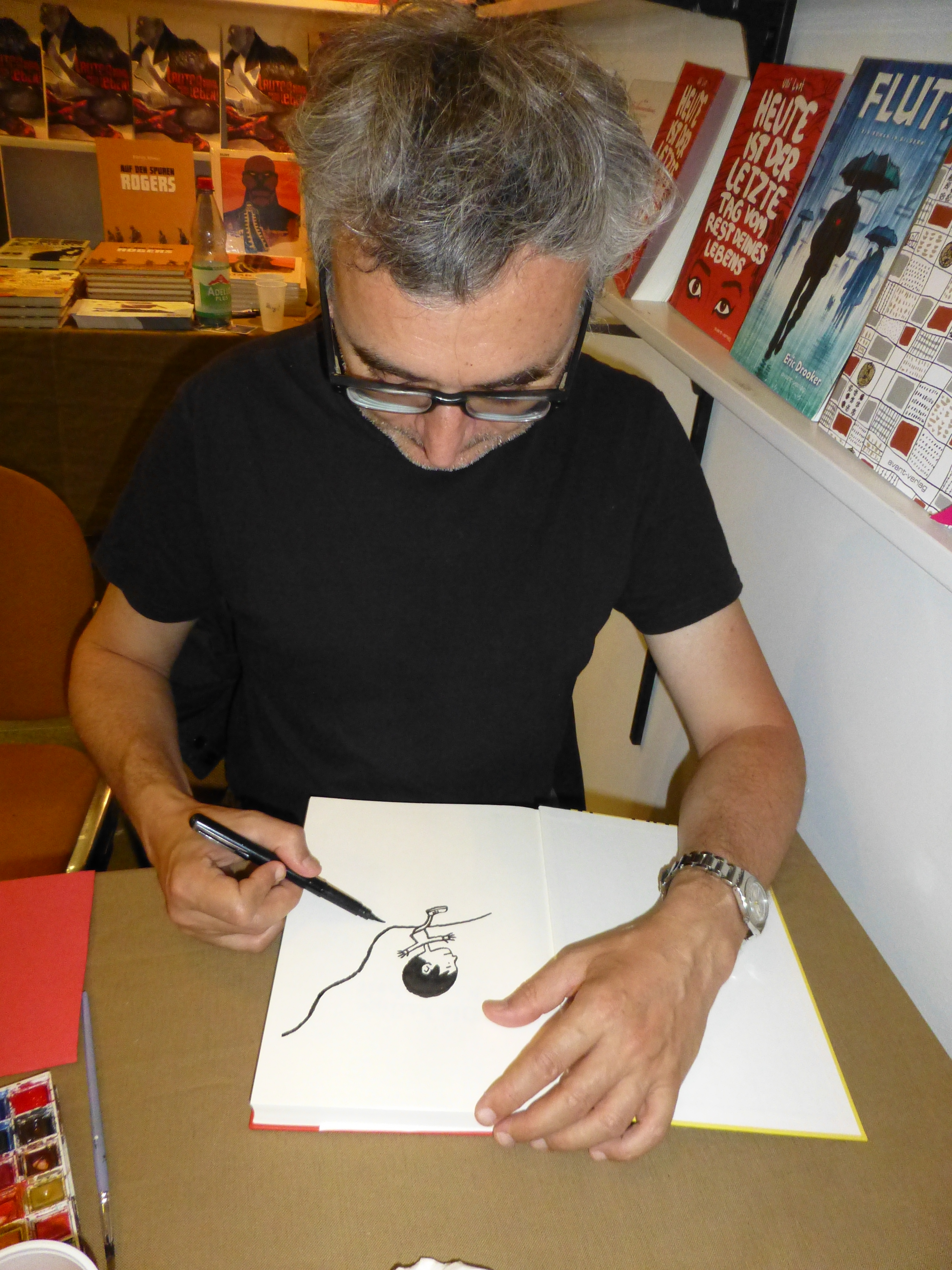 David B. at the Comic Salon Erlangen 2014